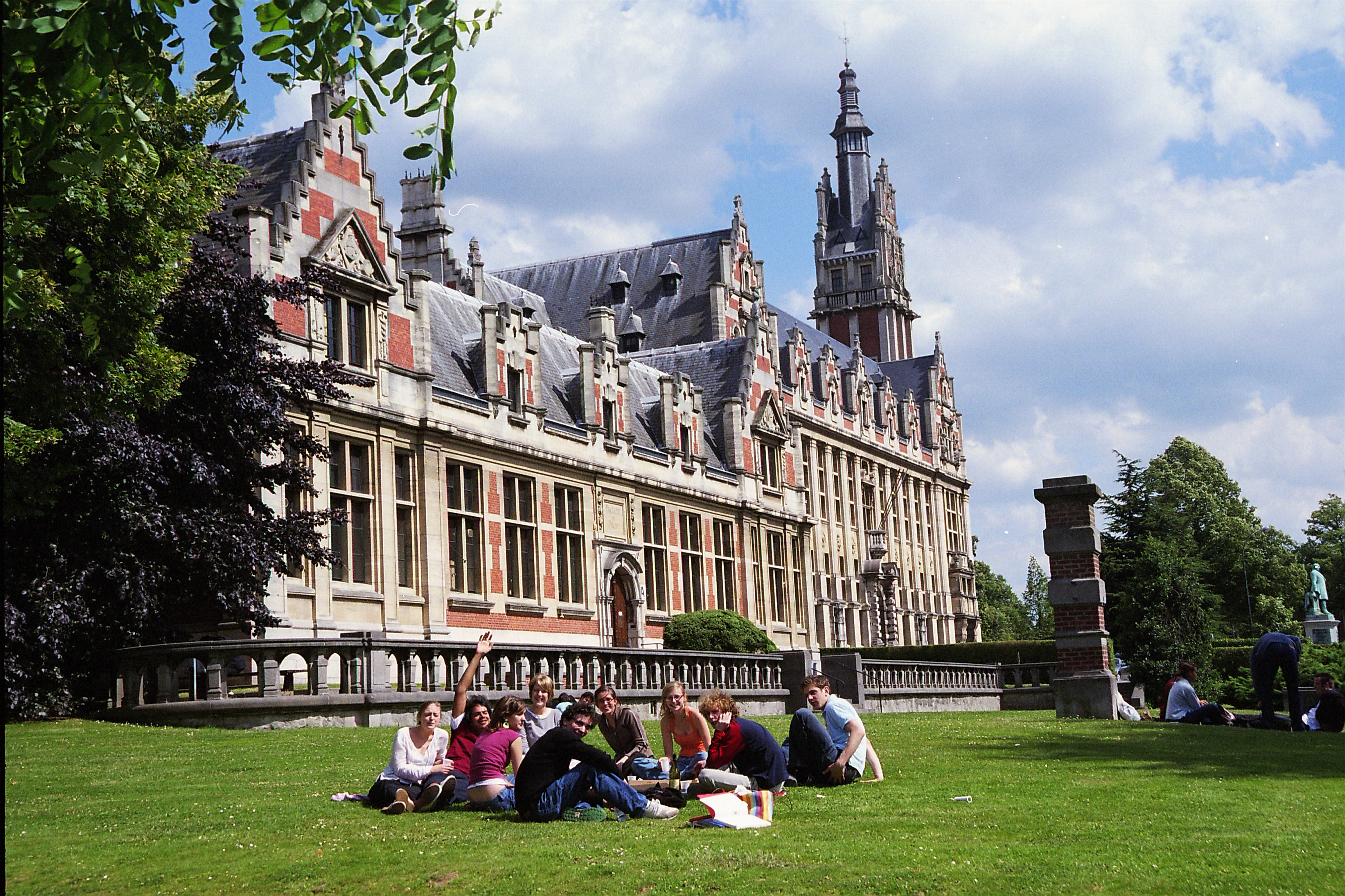 Université Libre de Bruxelles